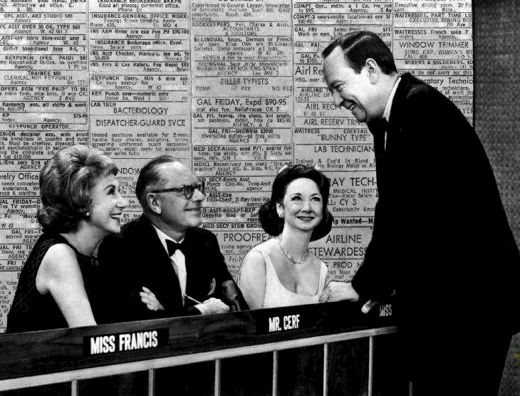 Photo from the 15th anniversary of the television game show What's My Line?. The original panelists and host were still with the program at the time. Panelists from left-Arlene Francis, Bennett Cerf, Dorothy Kilgallen. Standing is the host, John Charles Daly.